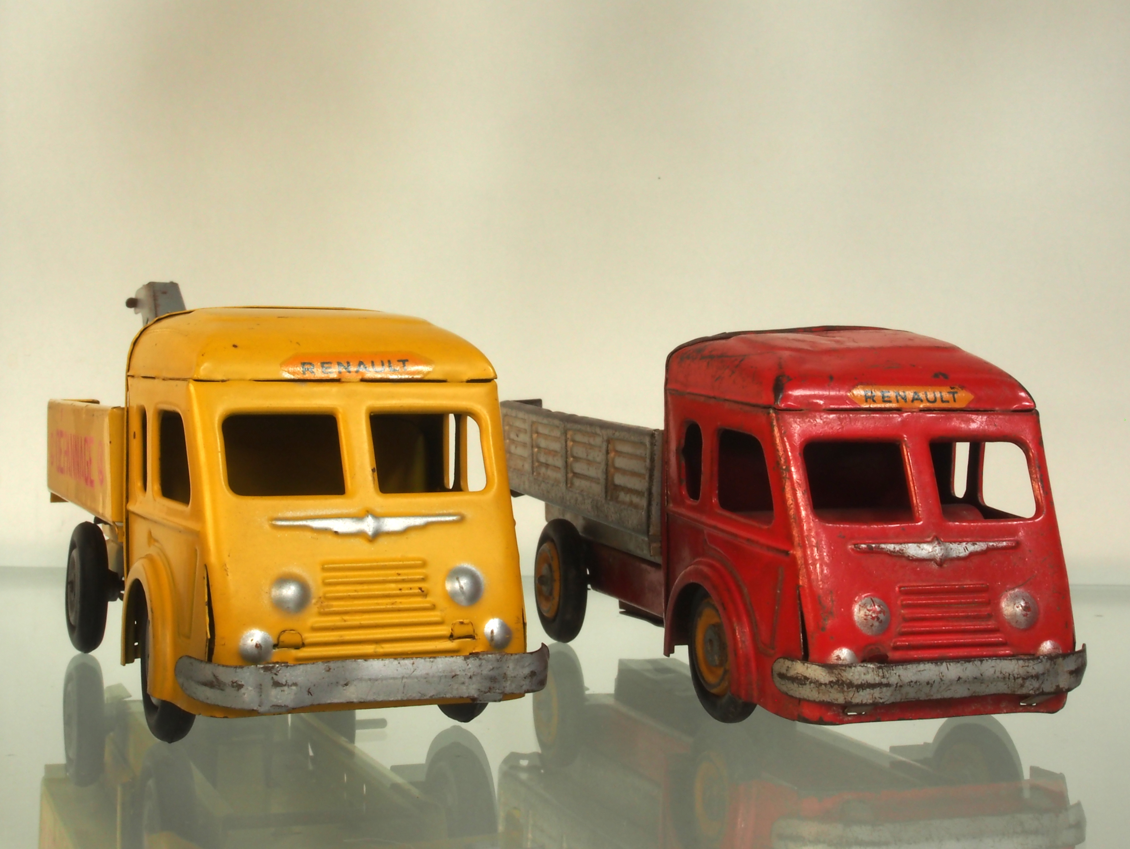 Old Renault toy trucks.